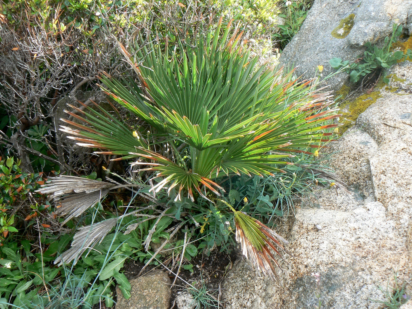 Chamaerops humilis, Cap Taillat, Var, France